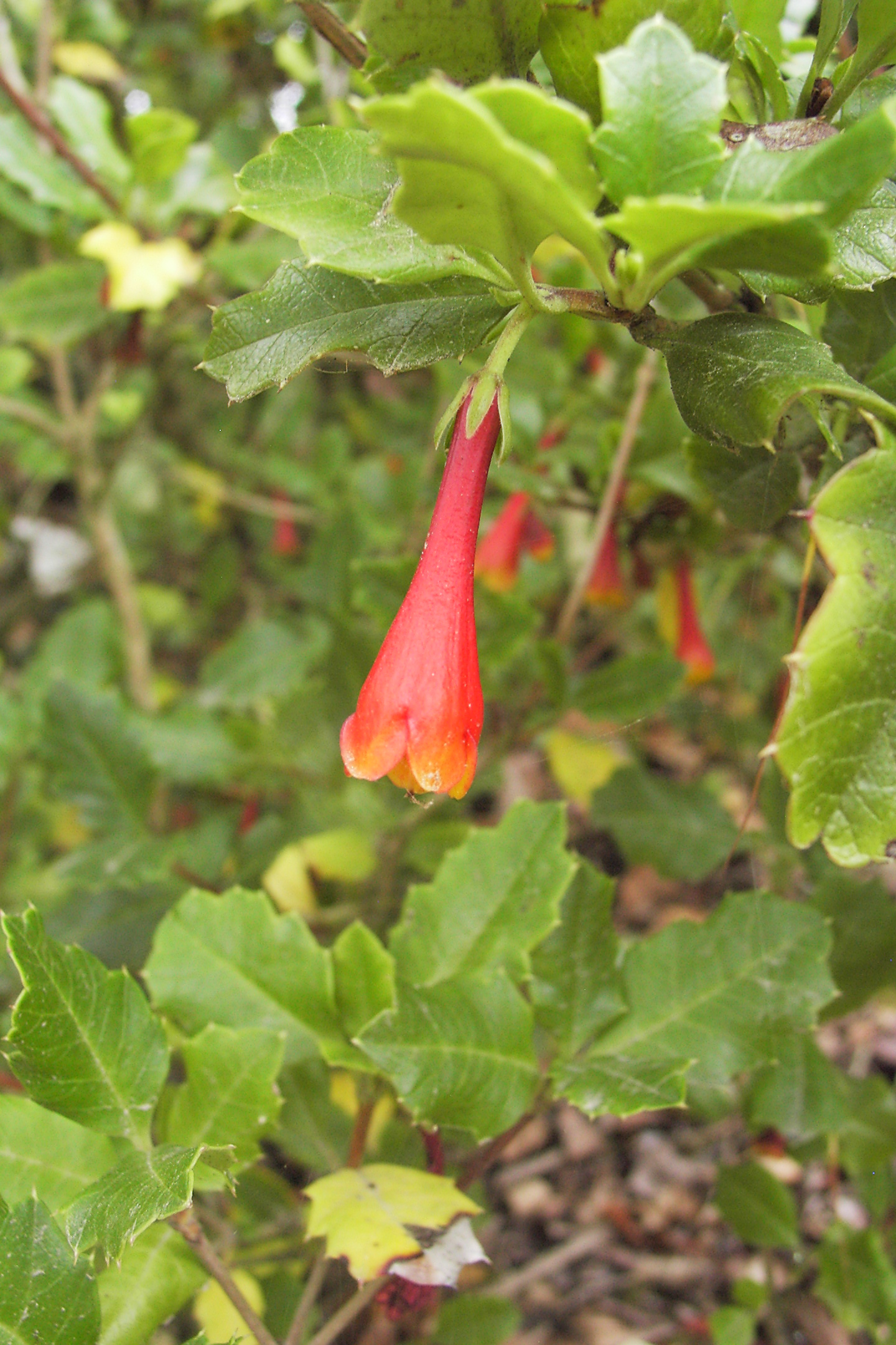 Desfontainia spinosa in Roscoff botanical garden